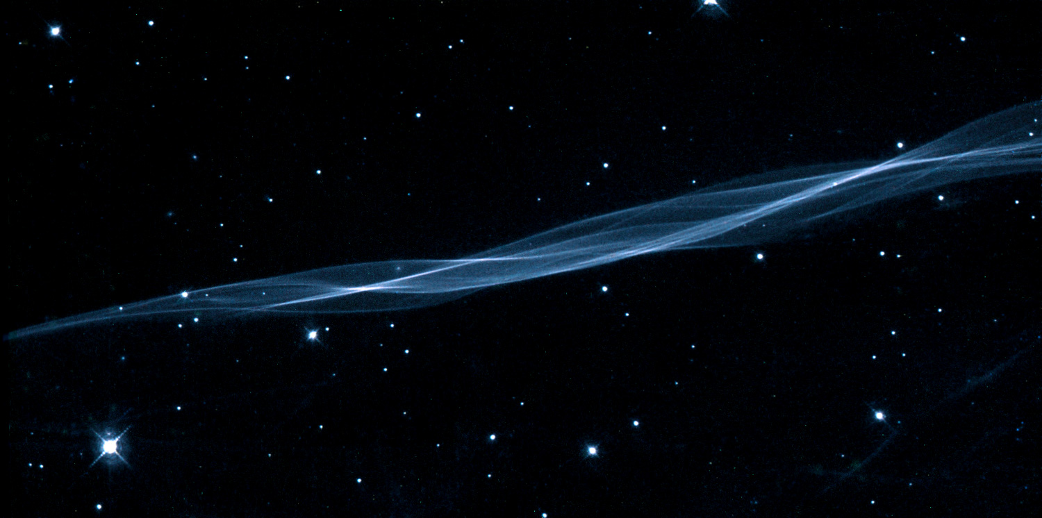 A small portion of the Veil Nebula as photographed by the Hubble Space Telescope, showing smoke-like wisps.